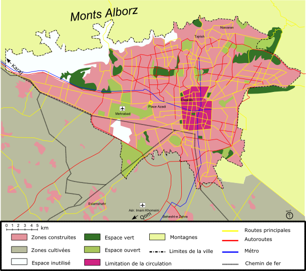 Date8 February 2007 (original upload date)SourceOwn workAuthorFabienkhan Licensing[edit]